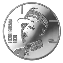 Swiss Commemorative Coin 1989 CHF 5 obverse: Henri Guisan